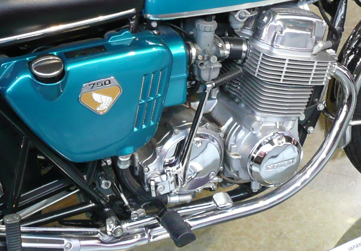 1970 Honda CB750K0, National Motor Museum in Beaulieu.